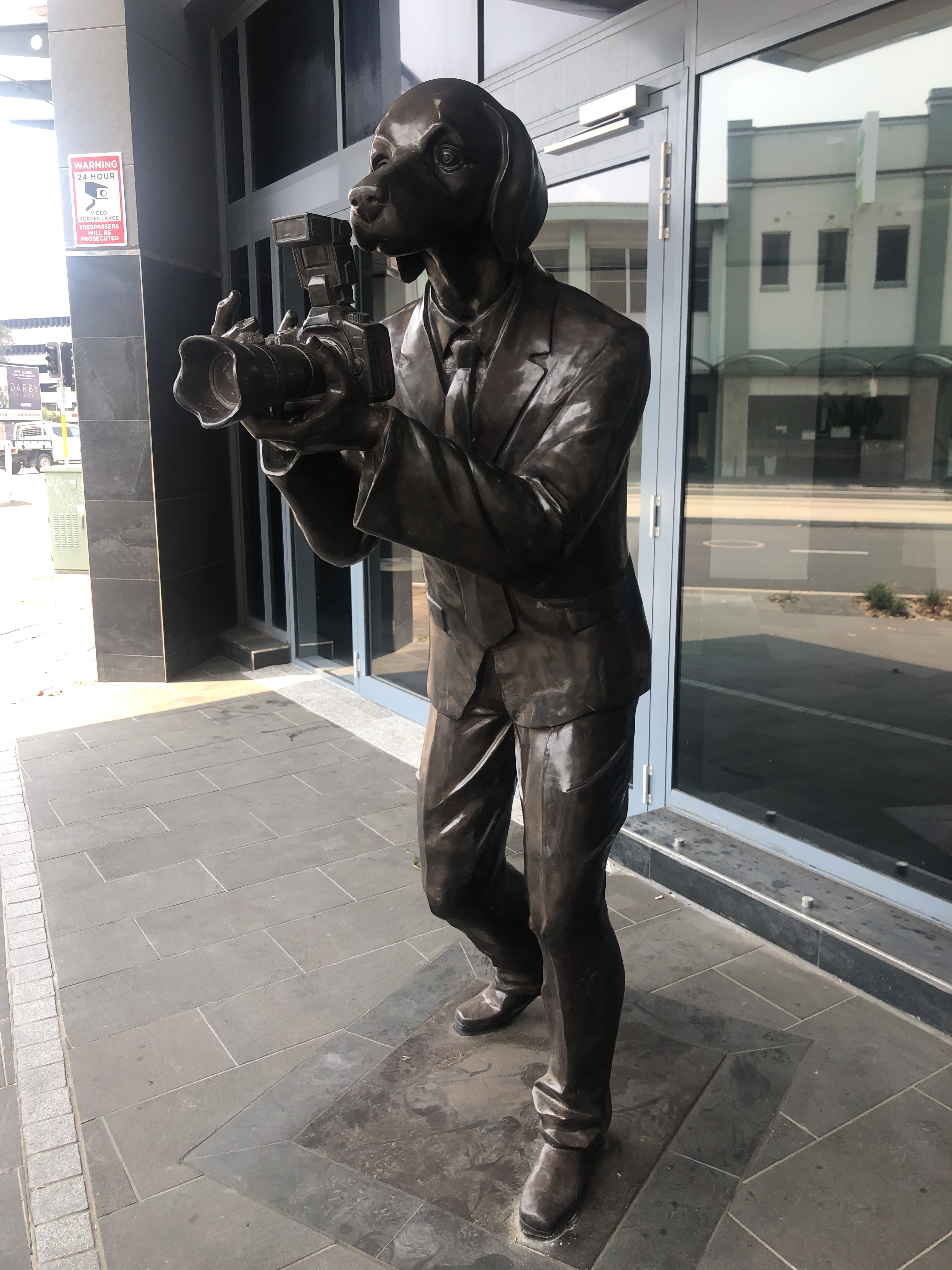 metal sculpture of a human photographer with a dog's head.